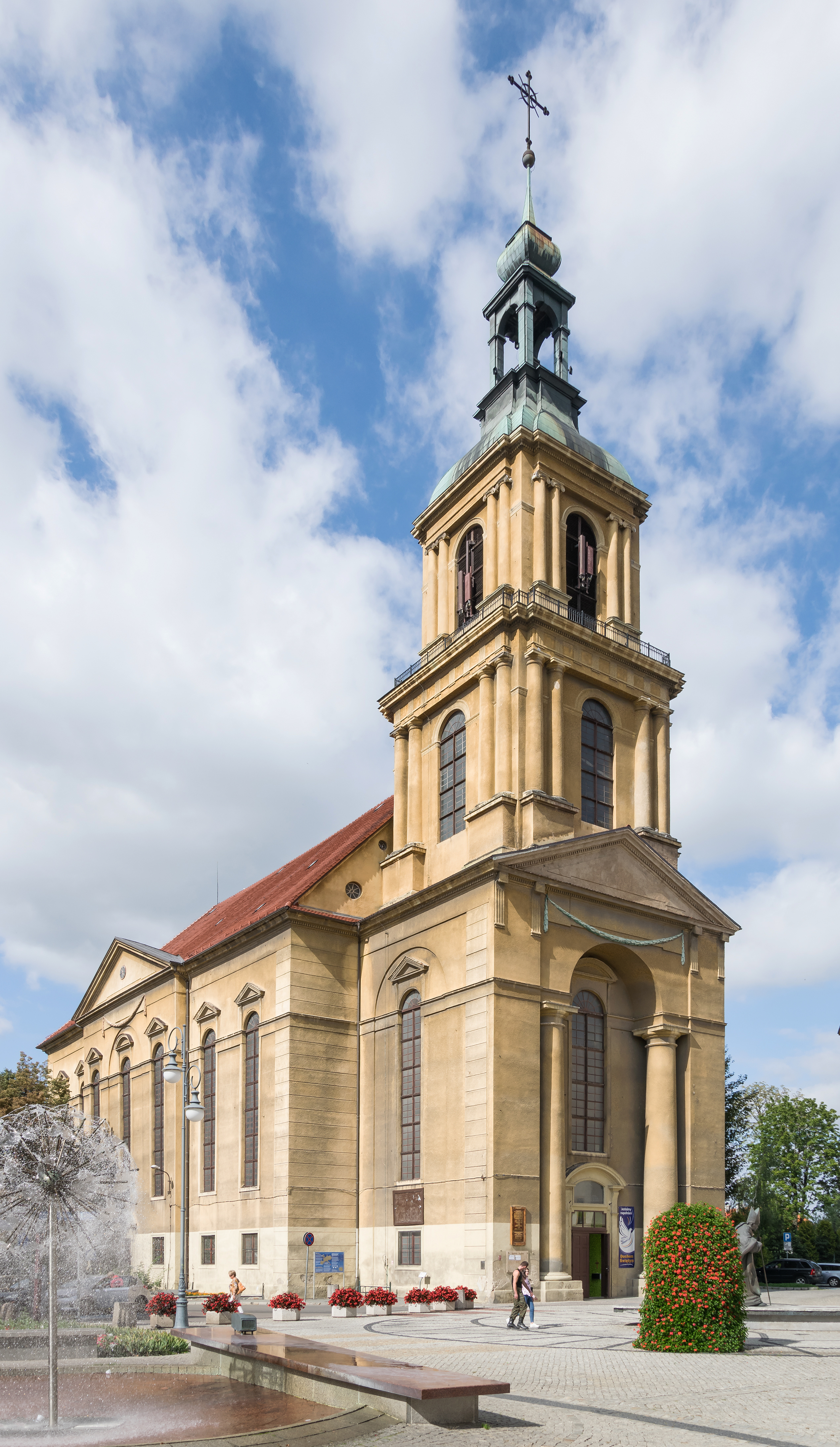 Church of St. Mary the Mother of the Church in Dzierżoniów